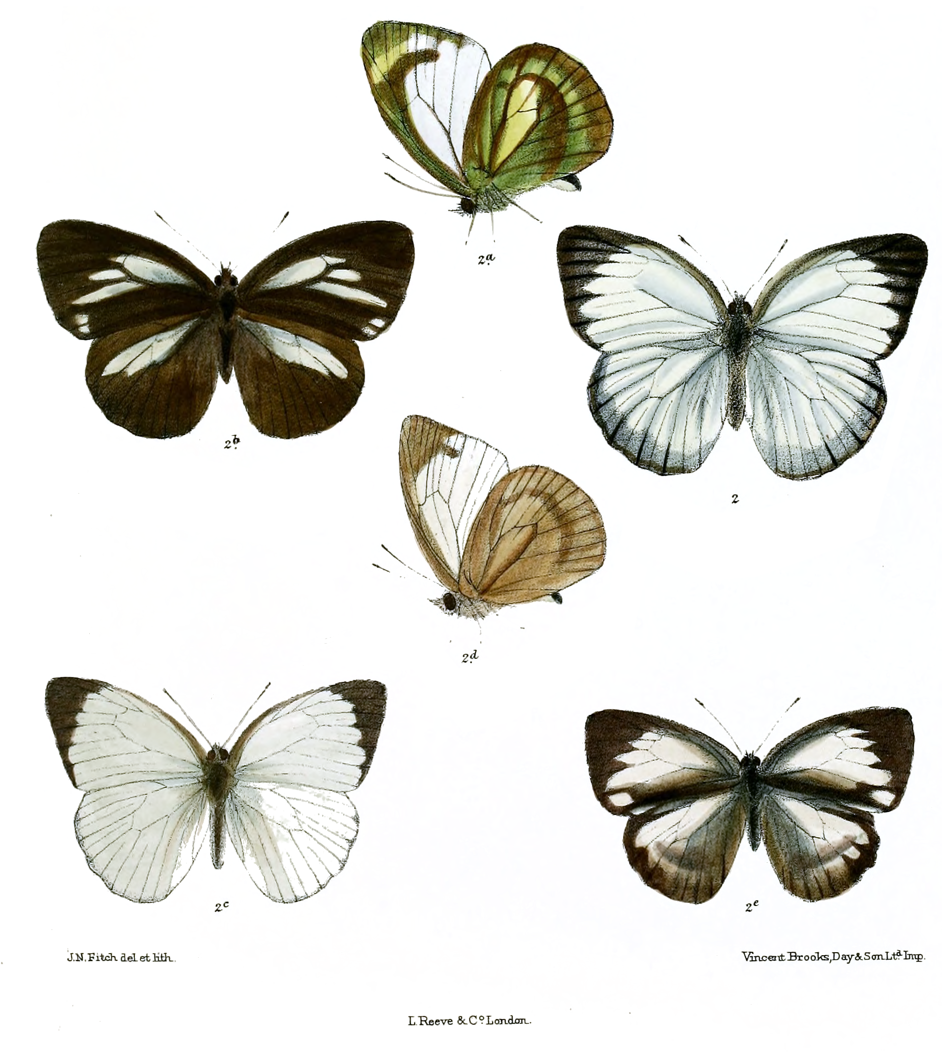 Huphina nadina = Cepora nadina (2, 2a male 2b female - wet season form) (c,d,e dry season form, e-female)